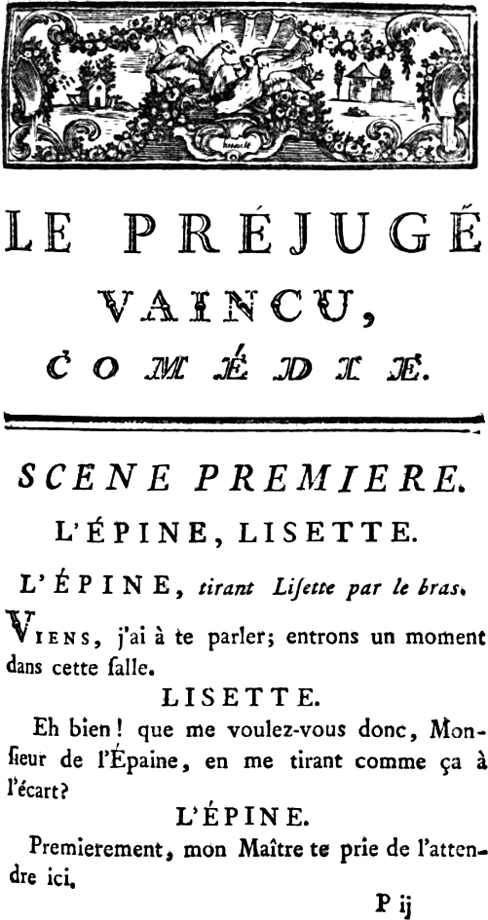 First page of The Defeated Bias (1746) by Pierre de Marivaux (1688-1763)